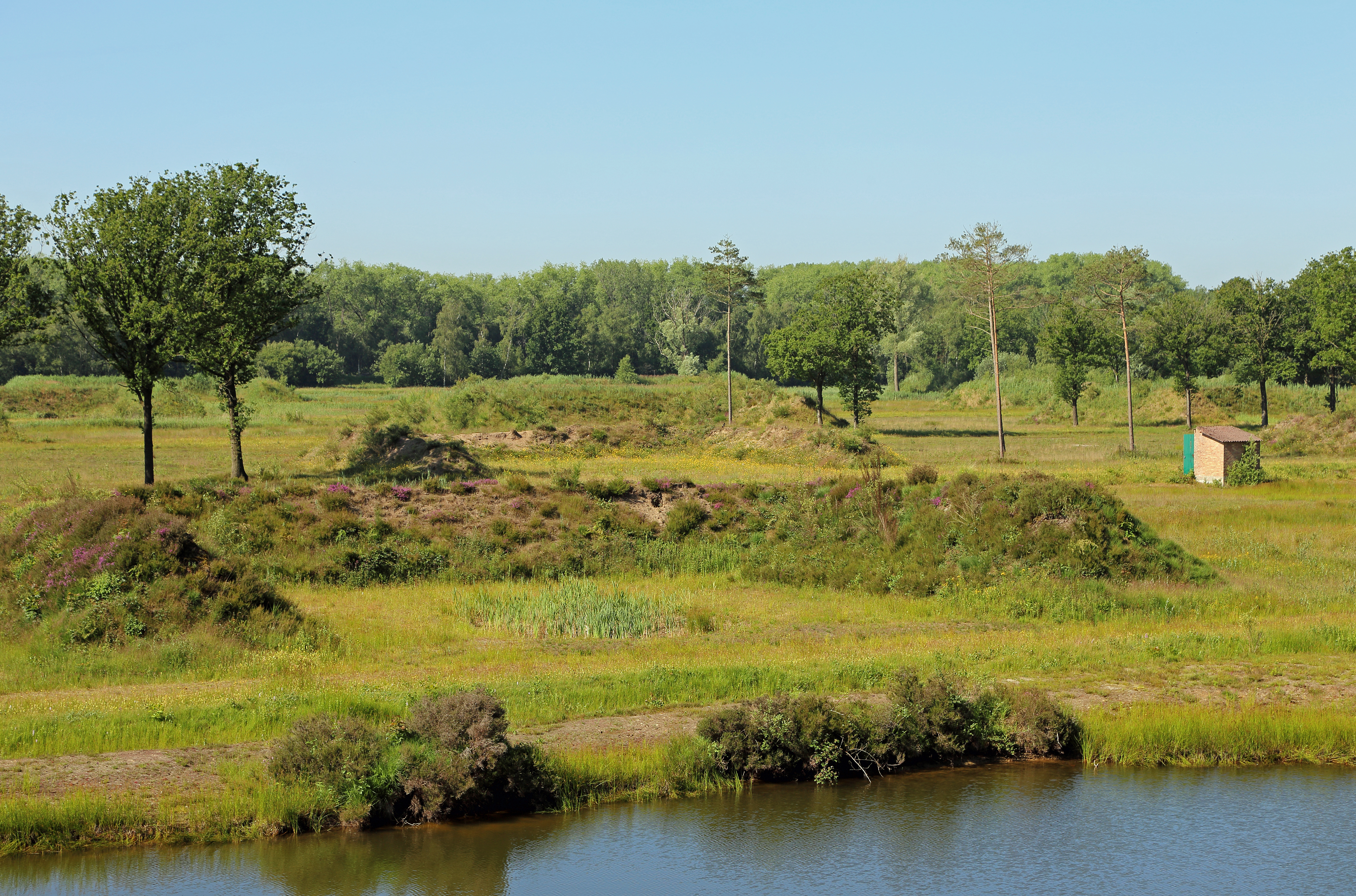 Jabbeke (province of West Flanders, Belgium): the former munition depot, now part of nature reserve Vloethemveld